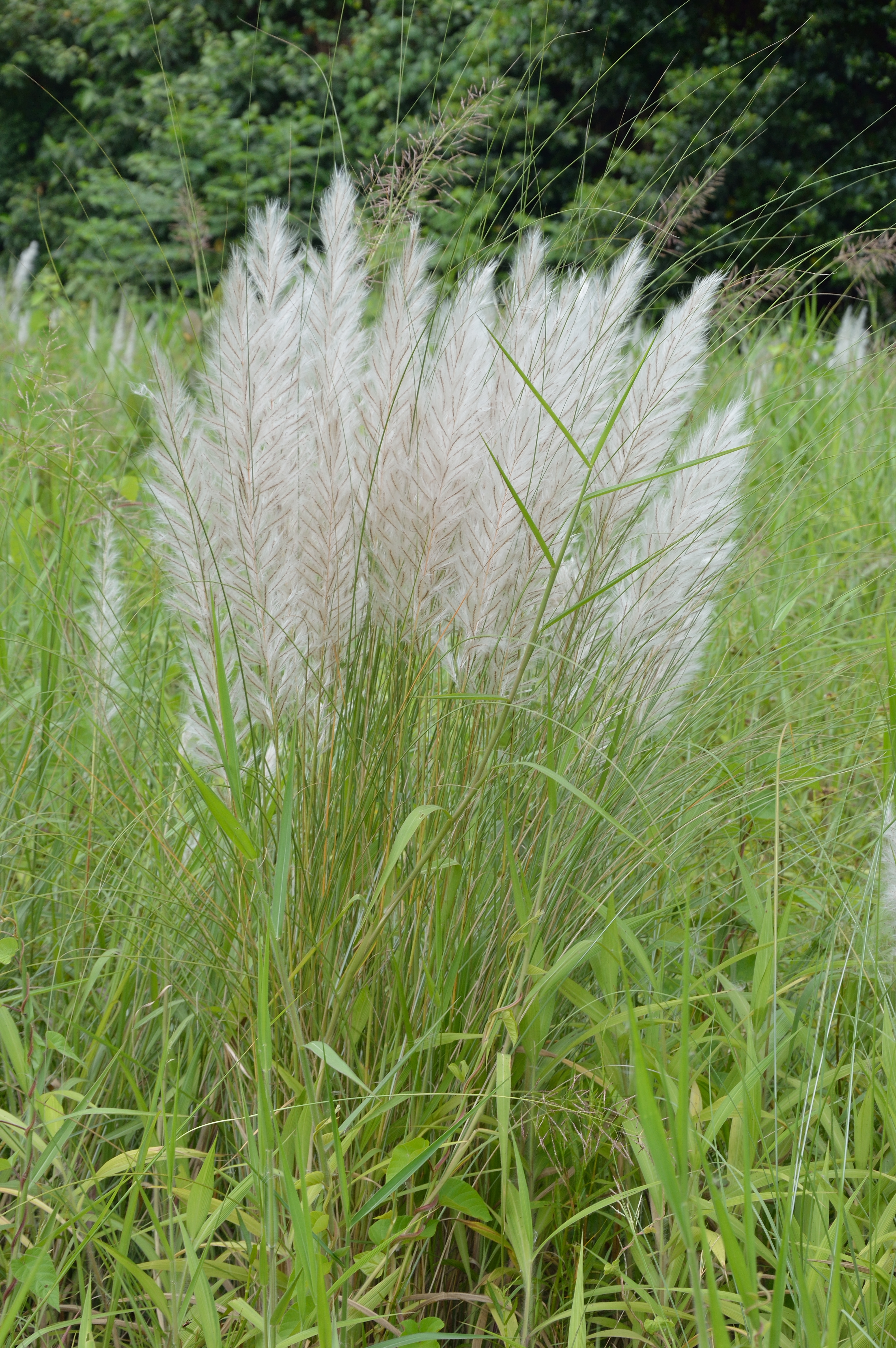 Kans grass (Saccharum spontaneum) (Hindi: काँस kām̥s, Oriya: କାଶତଣ୍ଡି kāśataṇḍi, Bangla: Kaash) is a grass native to South Asia. It is a perennial grass, growing up to three meters in height, with spreading rhizomatous roots.